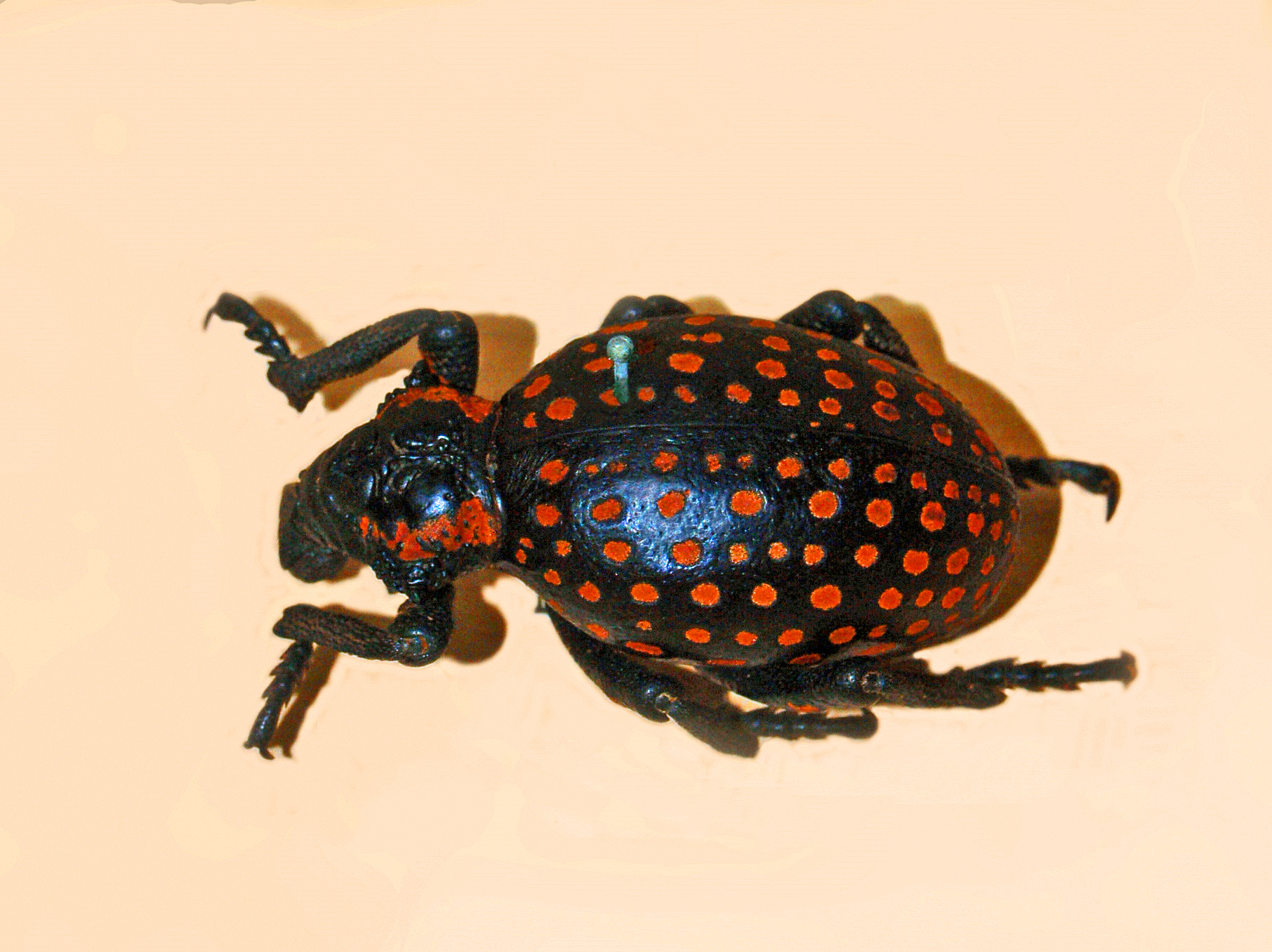 Brachycerus ornatus from South-Western Africa